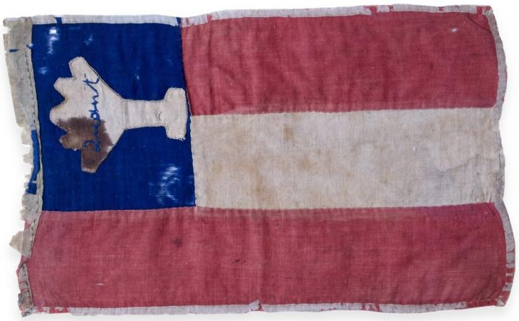 William Clarke Quantrill's flag, found in Olathe following Quantrill's Raid; Kansas Historical Society.